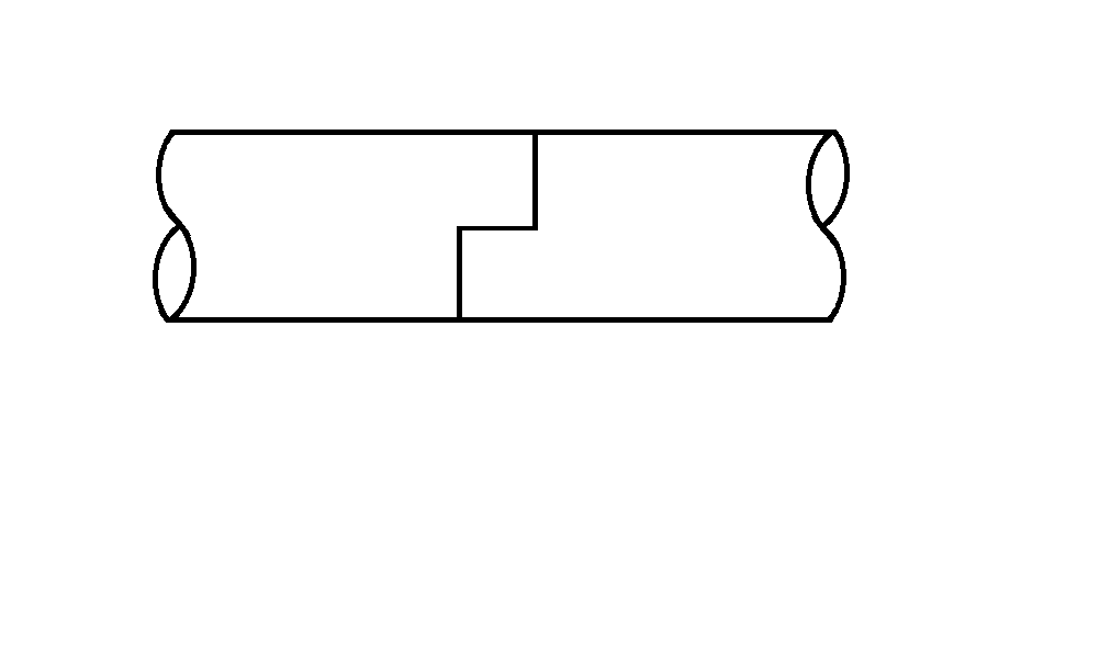 Concrete tooth.